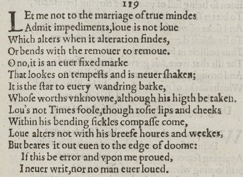 Sonnet 116 in the 1609 Quarto of Shakespeare's sonnets